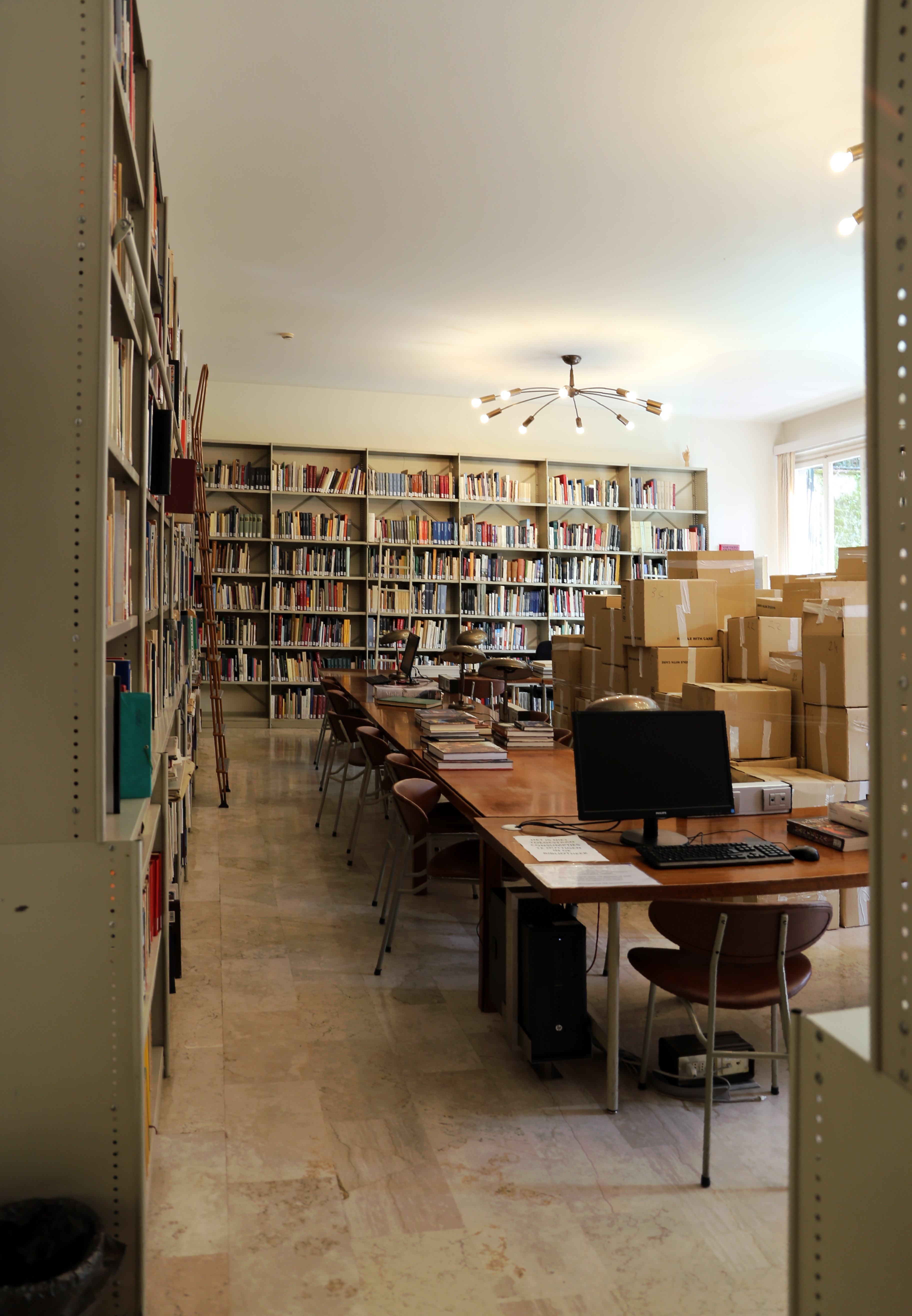 Nederlands Interuniversitair Kunsthistorisch Instituut in Florence